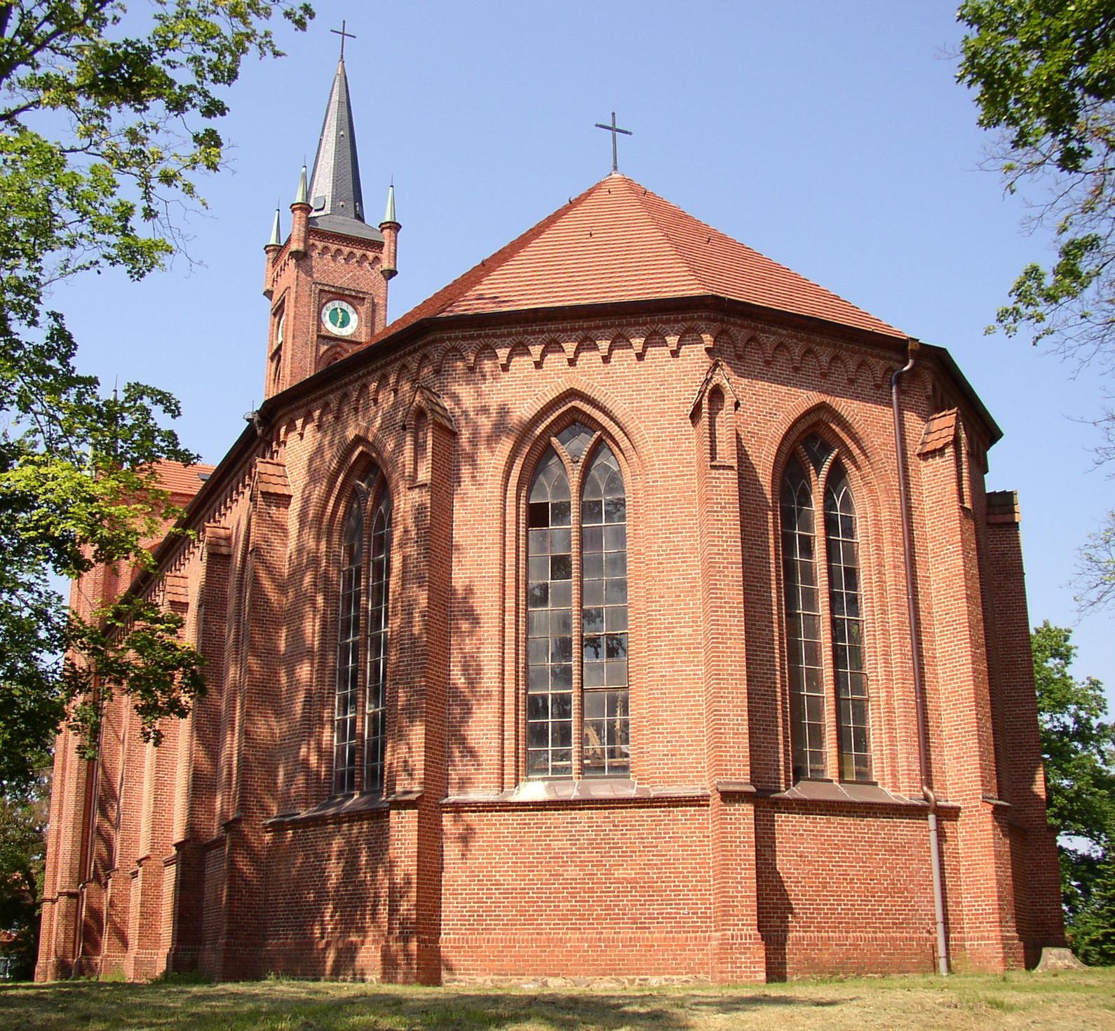 Church in Redefin in Mecklenburg-Western Pomerania, Germany